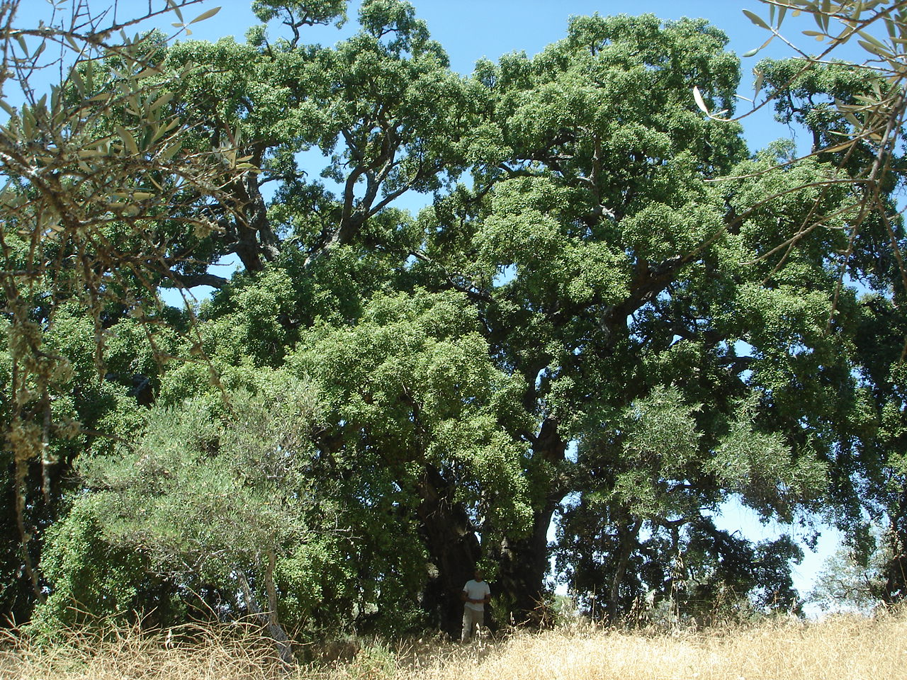 View of "Alcornoque de El Rincón".